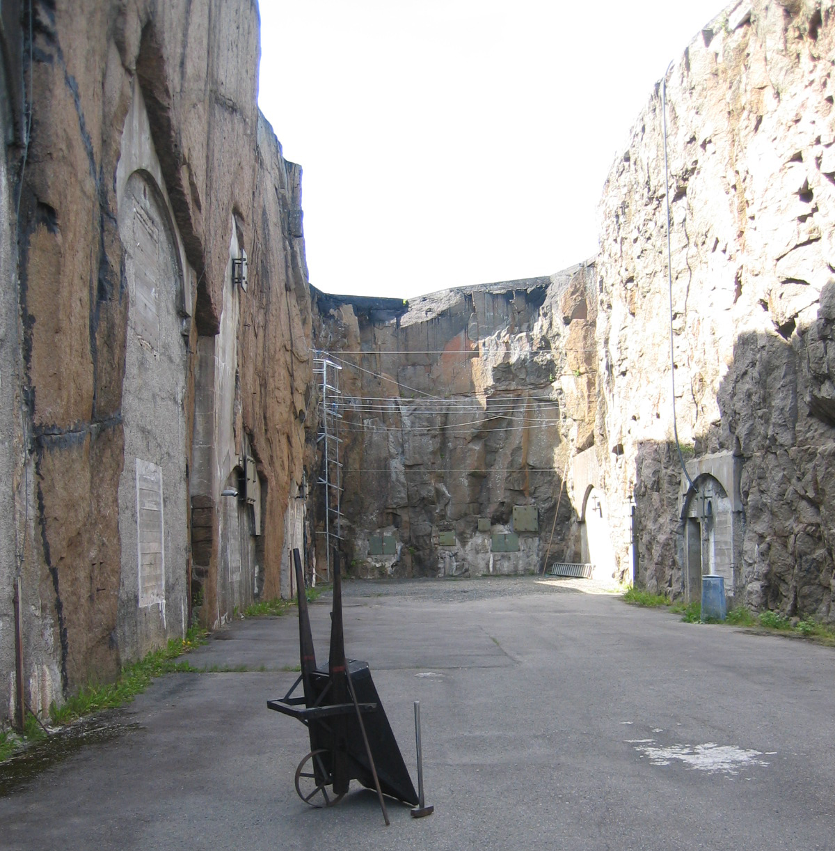 The ditch around Rödberget fort, part of Boden Fortress.